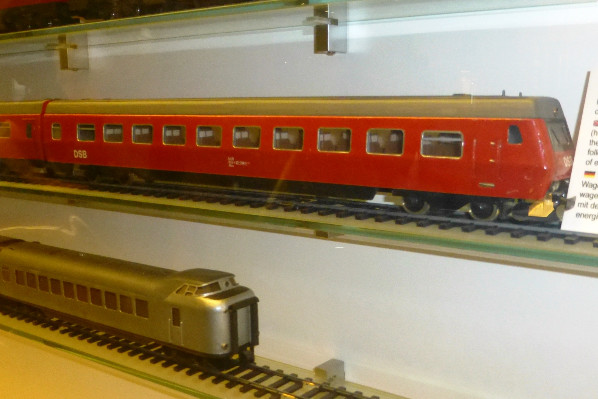 Model of driving coach from the socalled prototypelyntog in Danmarks Jernbanemuseum.